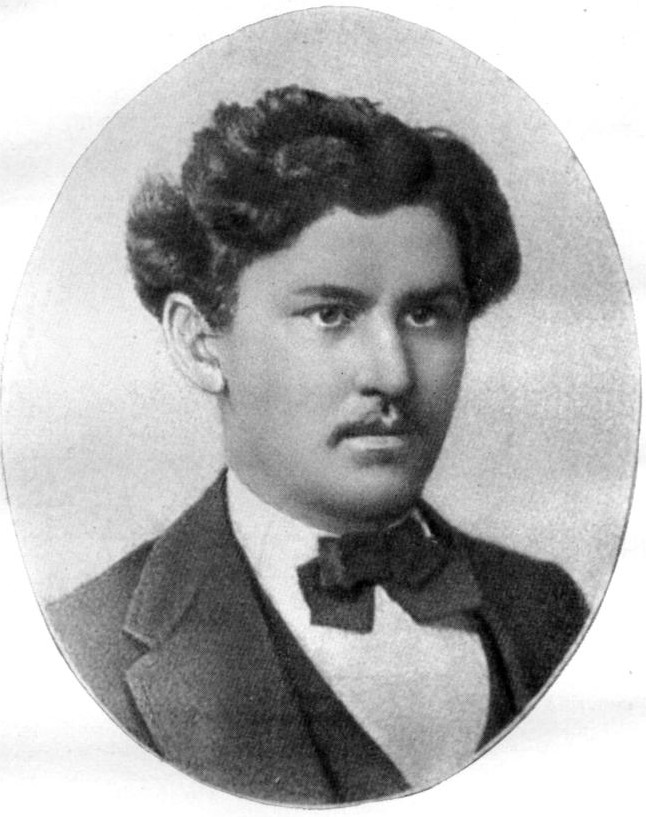 V.G. Korolenko. Photo early 1870s